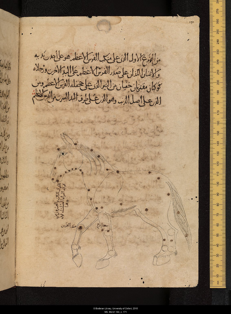 The horse (al-faras). (Constellations of the northern hemisphere). From Al-Sufi's Book of the Fixed Stars (Kitāb Ṣuwar al-kawākib (al-thābitah)), a revision of Ptolemy's Almagest with Arabic star names and drawings of the constellations. Dated 1009-10 (A.H. 400). Shelfmark: MS. Marsh 144. page 171